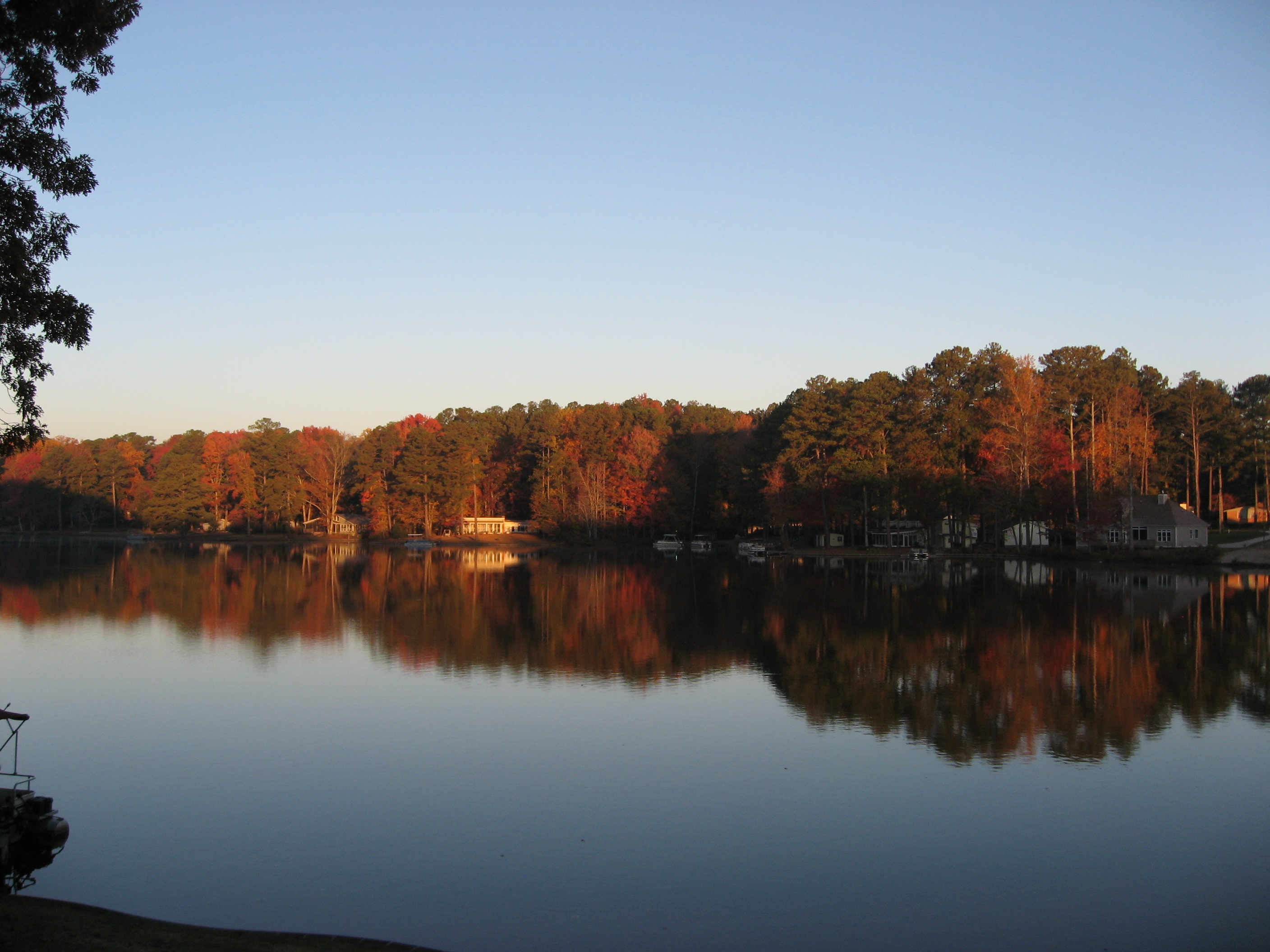 The is a picture of 70-acre Lake Jodeco. The lake is located a few miles east of Jonesboro, Georgia USA.